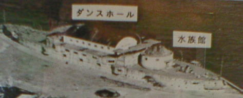 Japanese battleship"MIKASA"after WWⅡ.